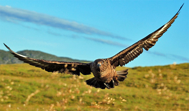 Skua on Runde (Stercorarius skua)